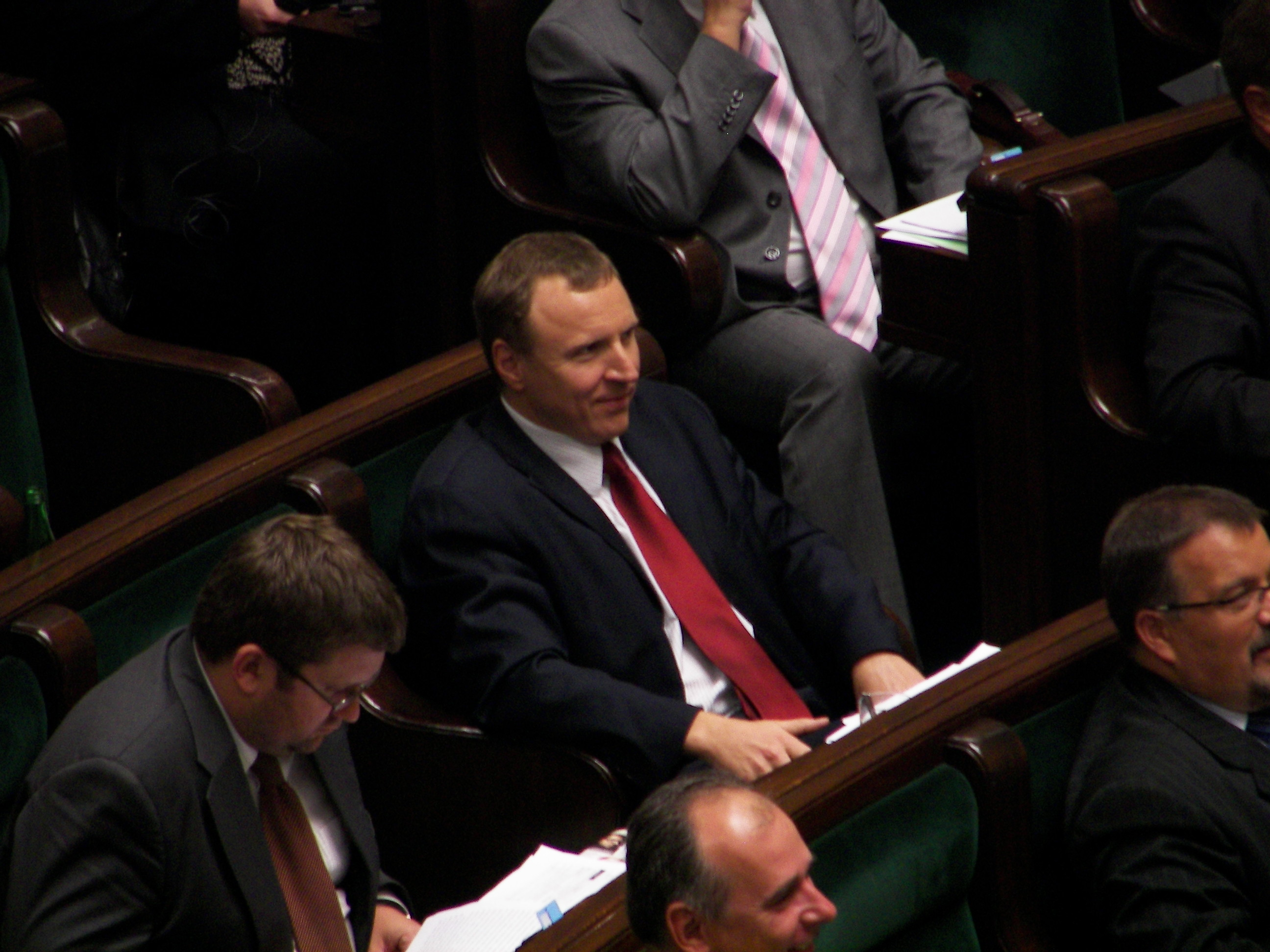 Poland's parliament called early elections (Fri Sep 7, 2007)